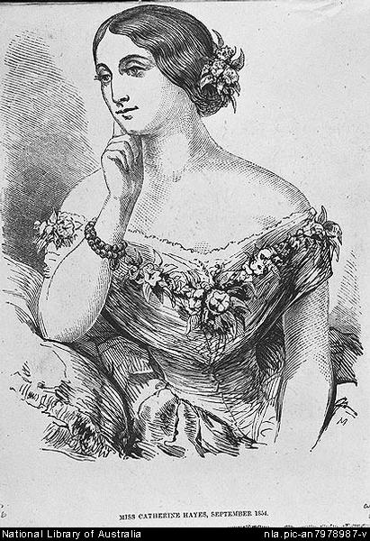 Catherine Hayes, Irish opera singer, September, 1854